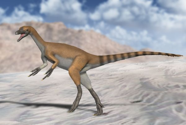 Haplocheirus